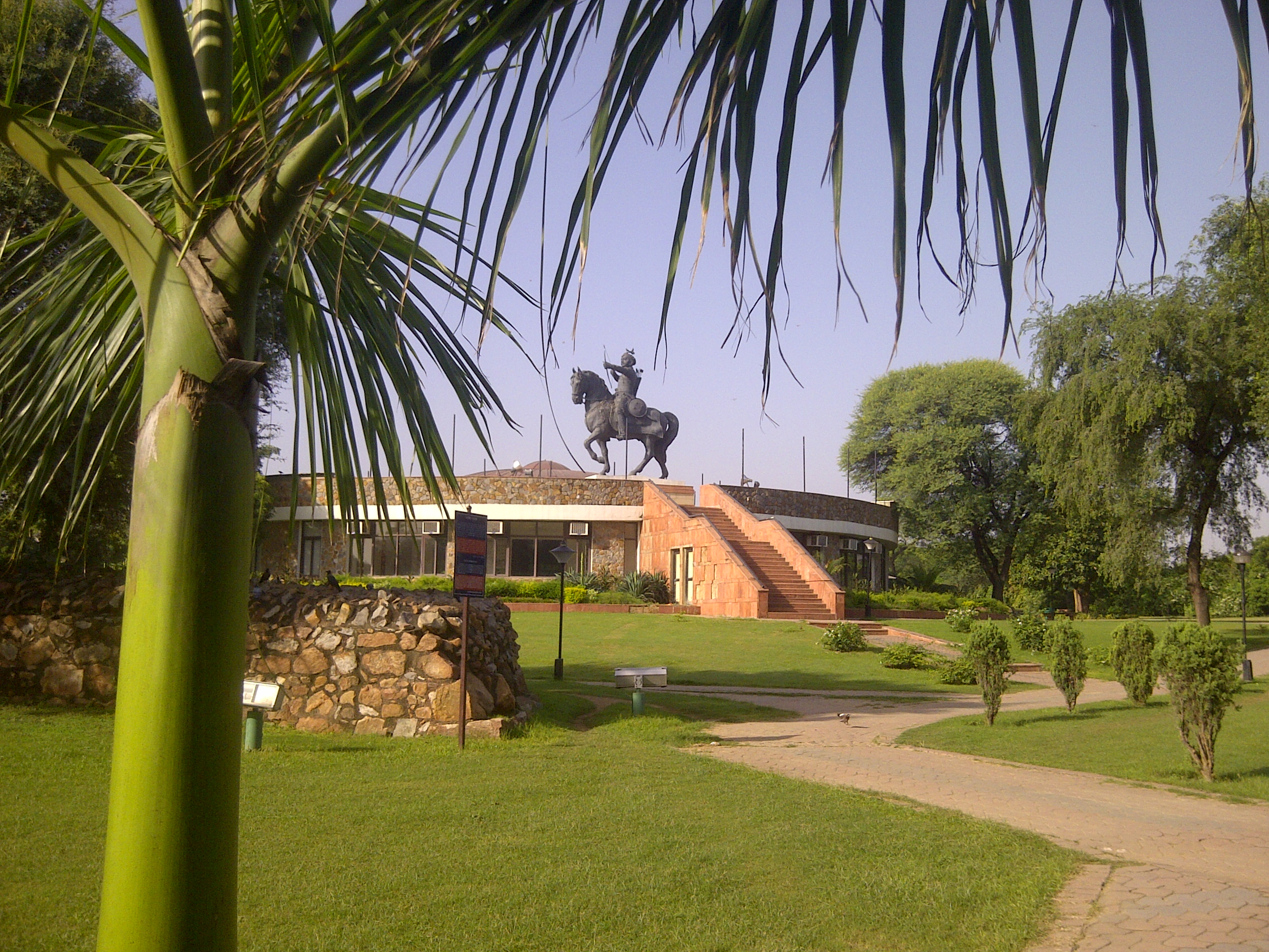 Qila Rai Pitora is one of the seven cities which make today's Delhi. It was also known as Rai Pithora and was founded by Prithviraj Chauhan, the popular hero of the stories of Hindu resistance against Muslim invaders. Prithviraj's ancestors captured Delhi from the Tomar Rajputs who have been credited with founding Delhi. Anangpal, a Tomar ruler possibly created the first known regular defense -work in Delhi called Lal Kot - which Prithviraj took over and extended for his city, Qila Rai Pithora. The ruins of the fort ramparts are still partly visible in the area around Qutab Minar.